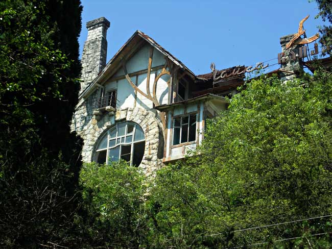 Palace of the Prince Peter of Oldenburg in Gagra, Abkhazia